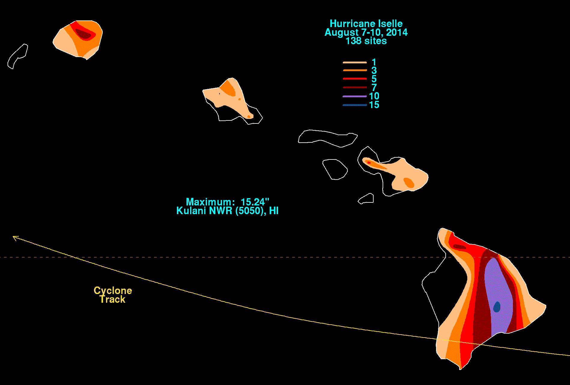 Rainfall map for Hurricane Iselle in Hawaii in August 2014.